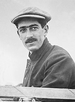 Bain News Service,, publisher. Emile Dubonnet circa 1913 [between 1910 and 1915] 1 negative : glass ; 5 x 7 in. or smaller. Notes: Title from unverified data provided by the Bain News Service on the negatives or caption cards. Forms part of: George Grantham Bain Collection (Library of Congress). Format: Glass negatives. Repository: Library of Congress, Prints and Photographs Division, Washington, D.C. 20540 USA, General information about the Bain Collection is available at Persistent URL: Call Number: LC-B2- 2290-8